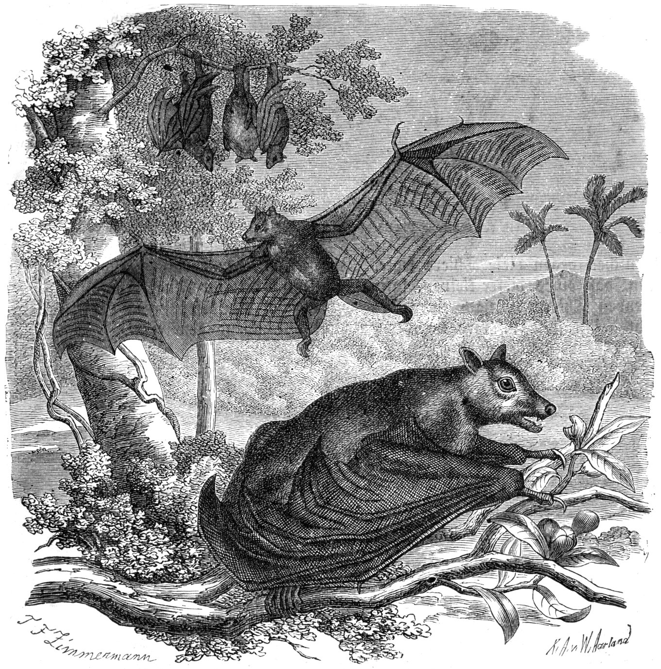 Original caption: "Fig. 18. Der Kalong. (Pteropus edulis., Geoffr.)". Translation (partly): "Large flying fox (Pteropus vampyrus)". Size: 4.5 x 4.6 in² (11.5 x 11.6 cm²)